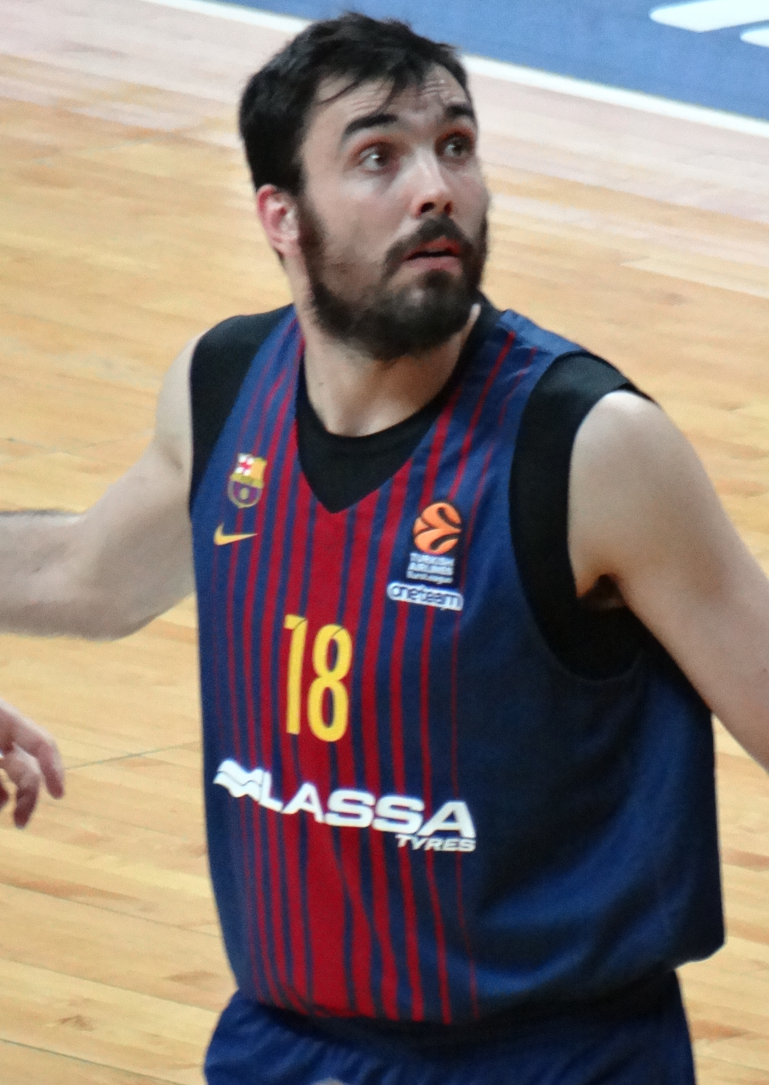 Pierre Oriola 18 FC Barcelona Bàsquet 20180126